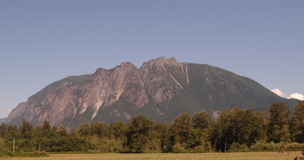 Looking east towards Mount Si from just north of North Bend on State Route 202 Photograph taken by wac August 11, 2004